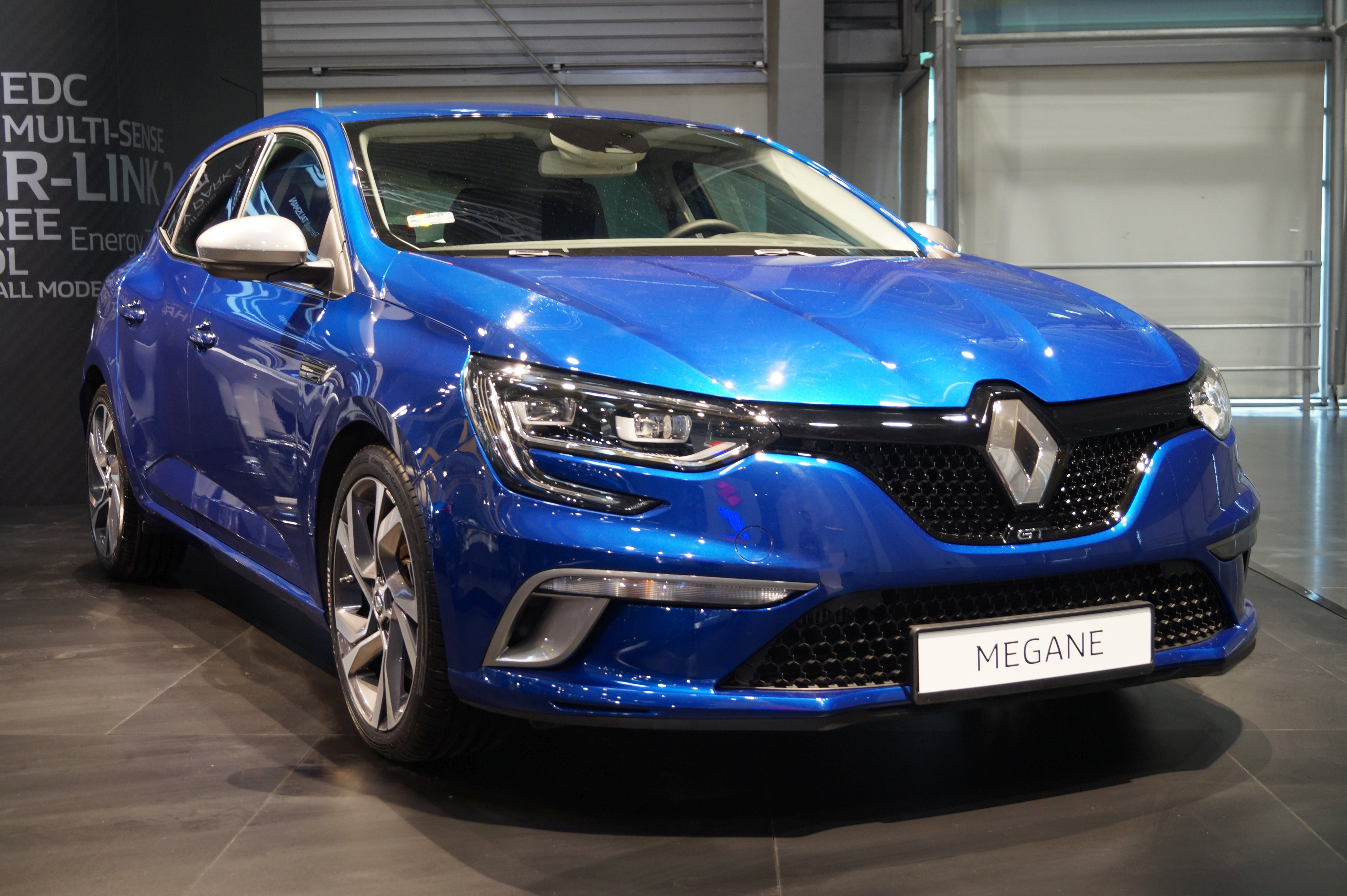 The making of this document was supported by Wikimedia Polska Association, within Wikigrant no. WG 2016-10. Przód Renault Mégane na Motor Show Poznań 2016